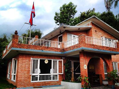 the office of Bibekshil nepali.